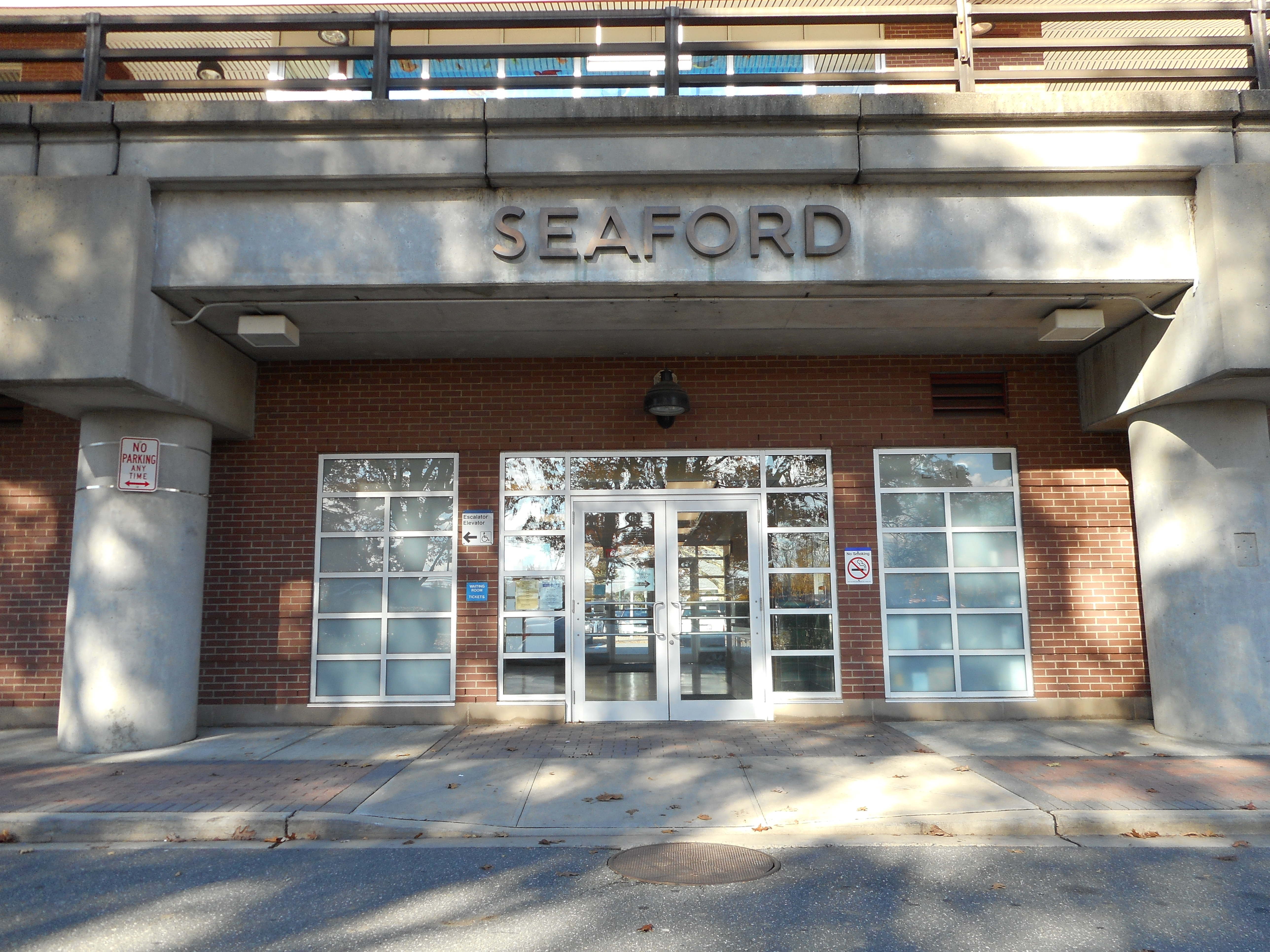 The front entrance to the Seaford (LIRR station) in Seaford, New York. I was looking for something more along the platform, but I never got the chance to take any pictures from there, so I'll have to settle for this for the time being.